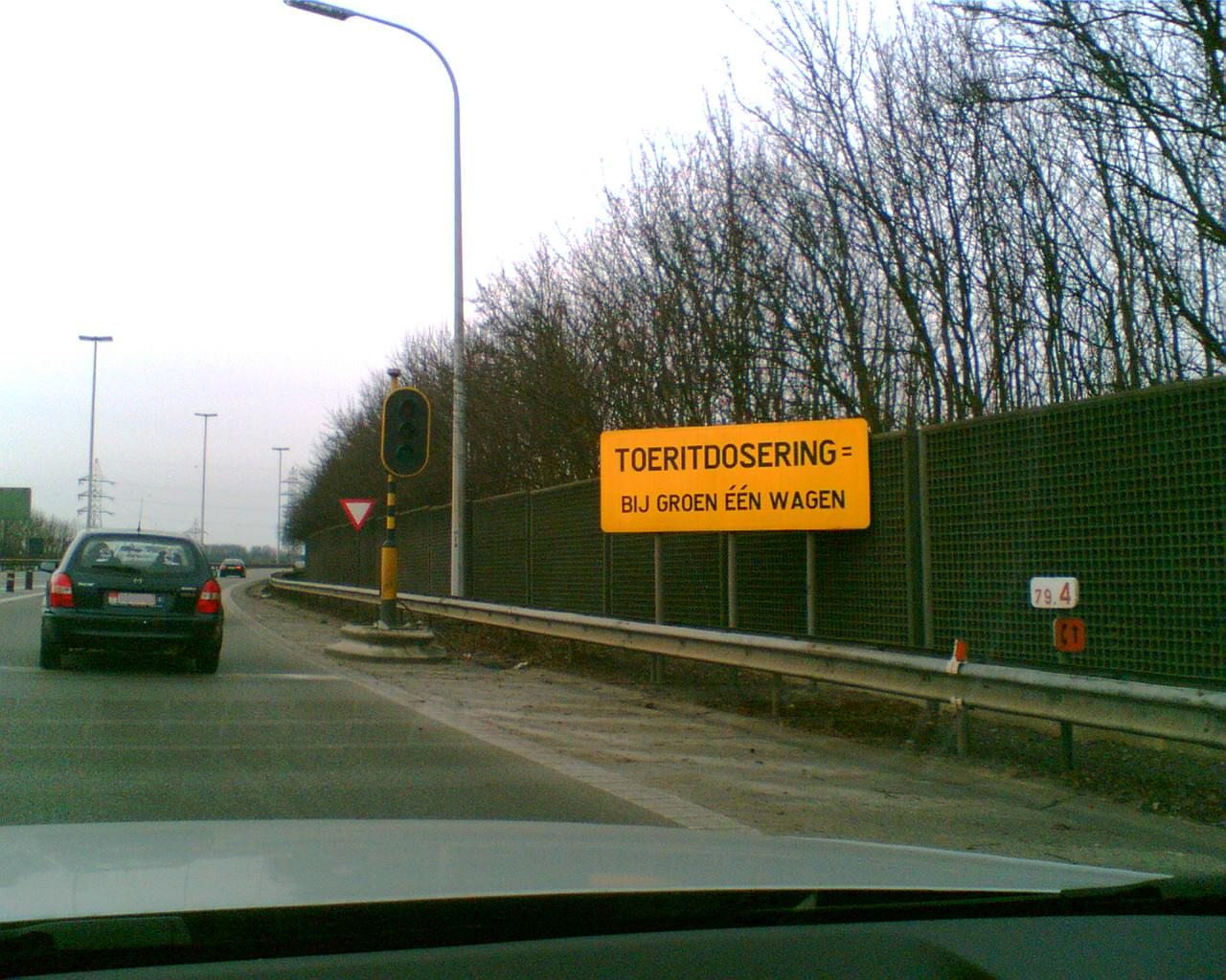 Entry regulation traffic light on Wilsele entry direction Brussels to E314/A2 motorway, Leuven, Belgium.